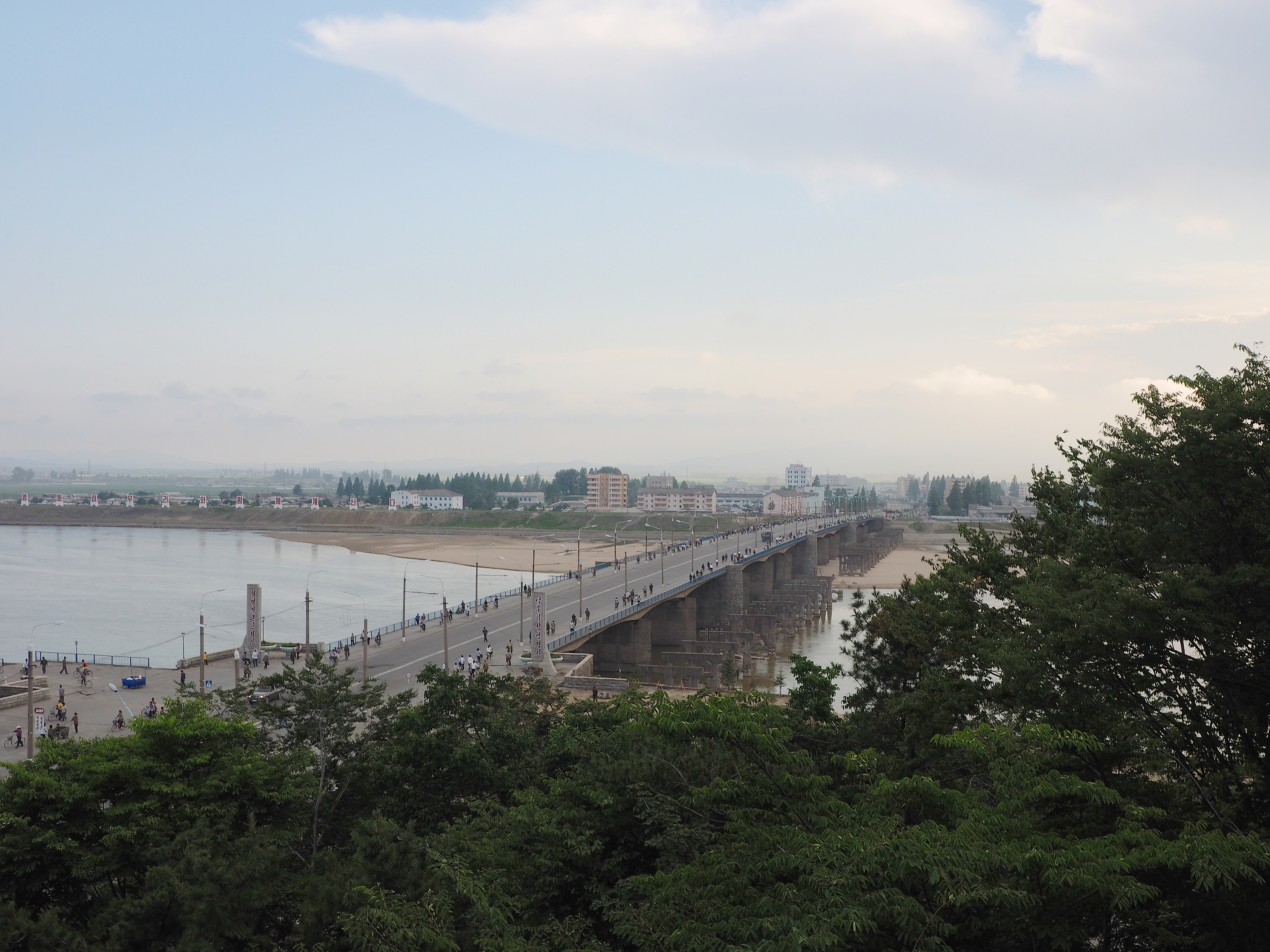 Looking across the bridge over the Sŏngch'ŏn River. This is one part of the country where damage from the "Korean War" was visible. Most bridges had an older counterpart that had damaged supports.